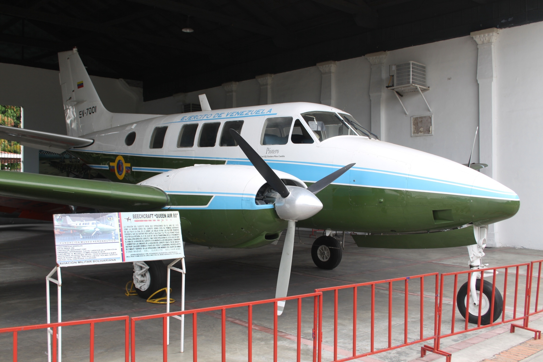 At Museo Aeronáutico de Maracay